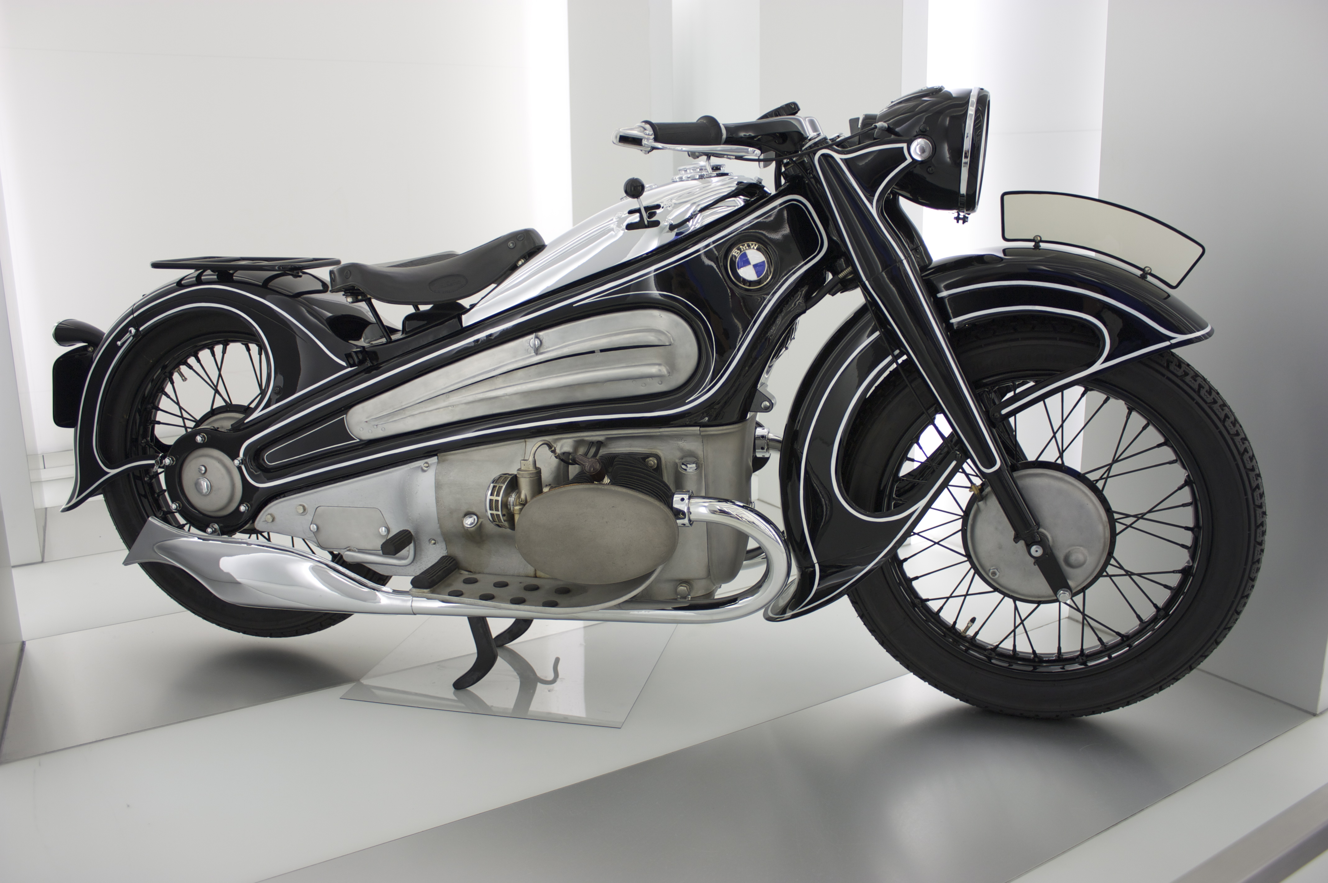 The unique BMW R7 presented in the BMW museum (Munich).